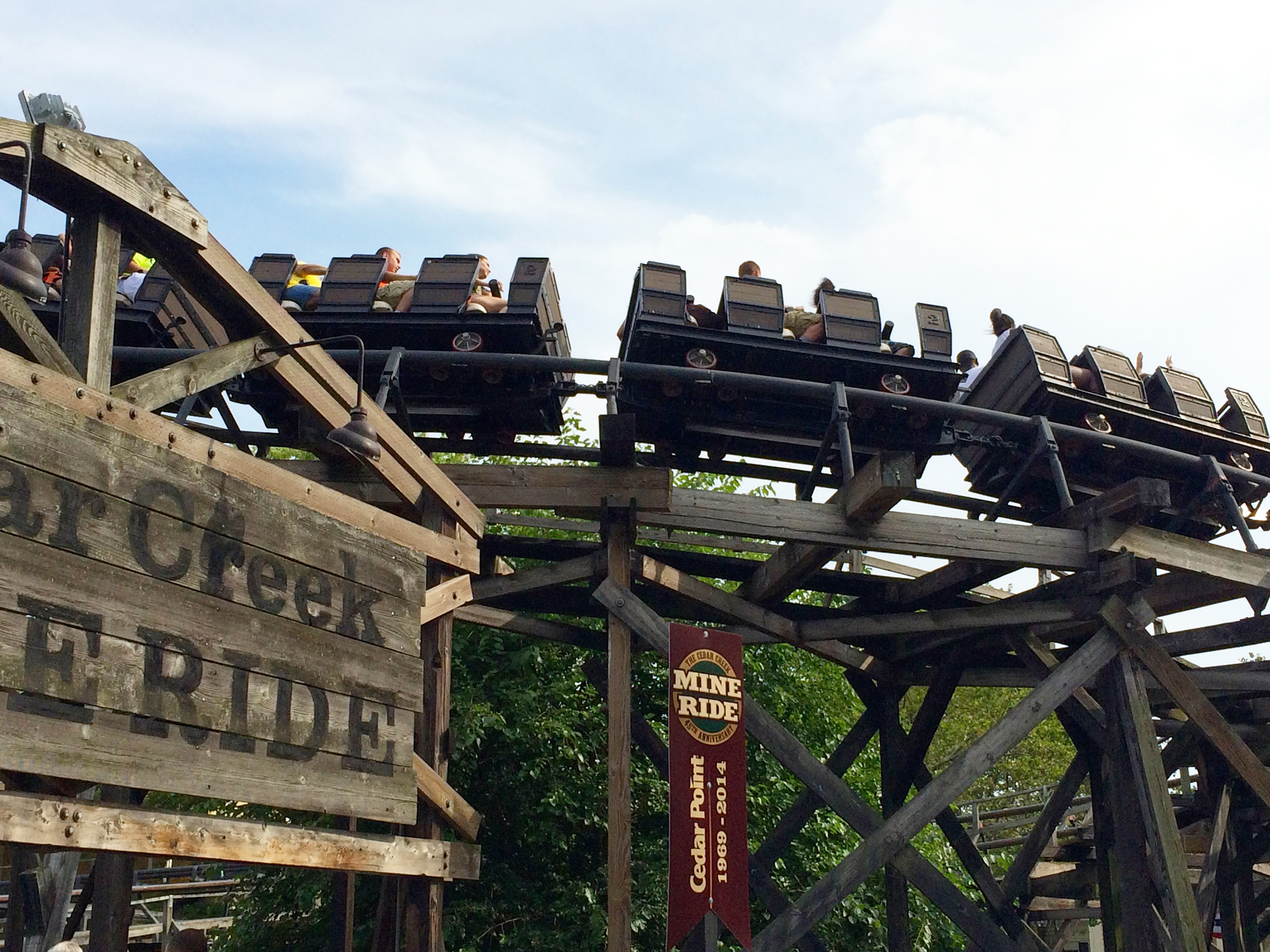 Cedar Creek Mine Ride trains in motion near ride's entrance sign with banners nearby commemorating the ride's 45th anniversary at Cedar Point.